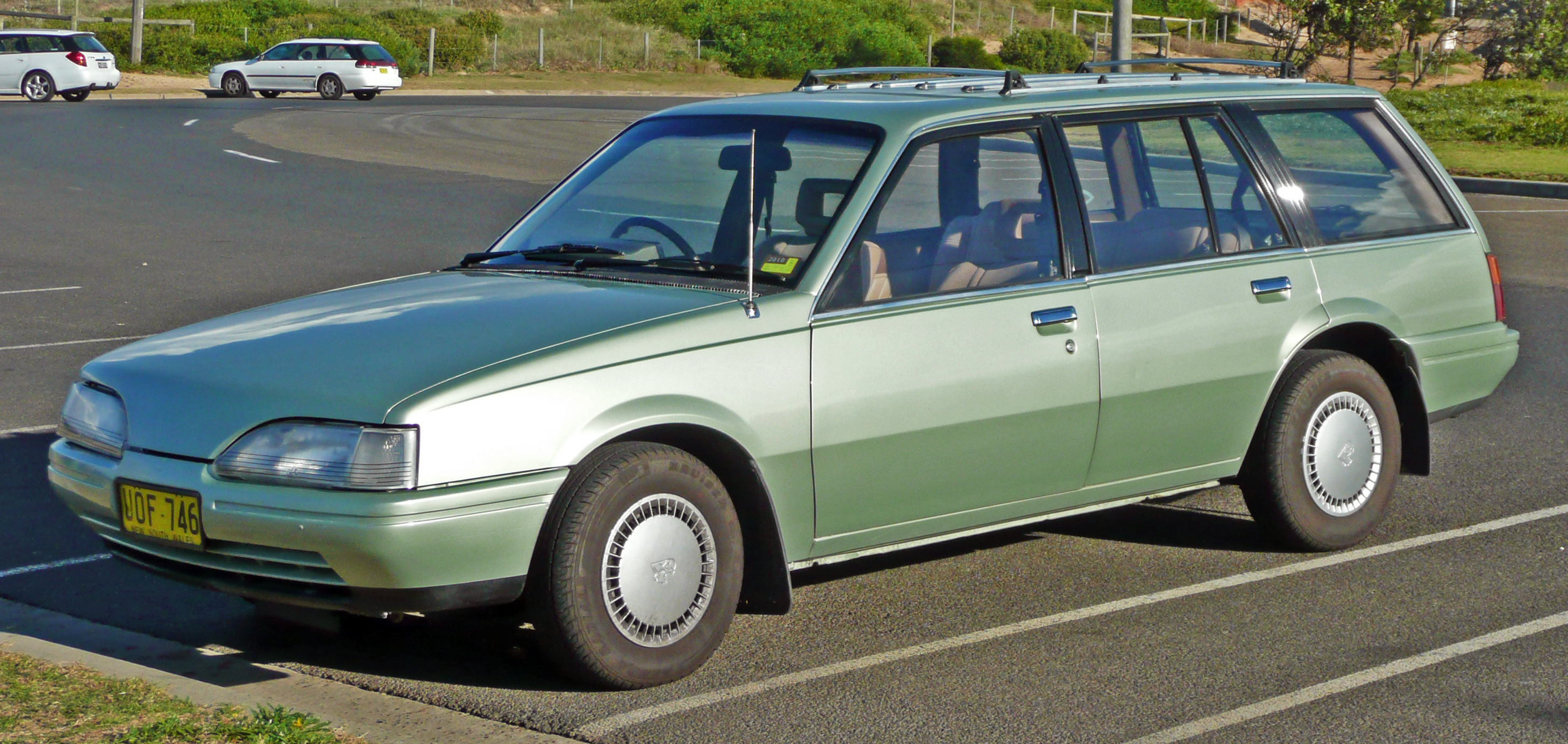 1985 Holden Camira (JD) SL/X station wagon. Photographed in Cronulla, New South Wales, Australia.